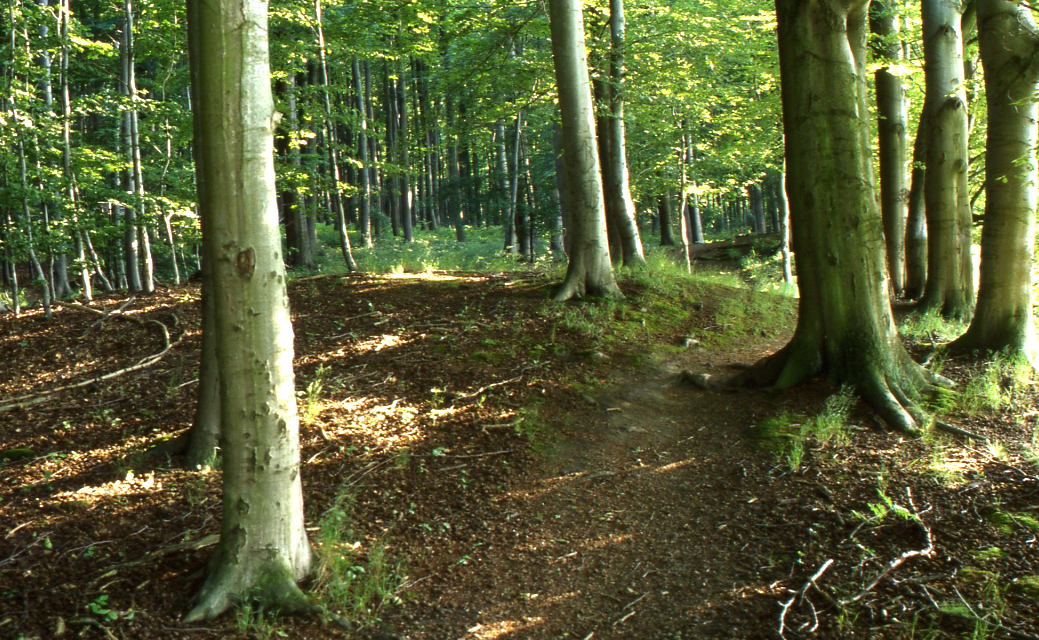 Barrow on the Marienberg near Nordstemmen in Germany